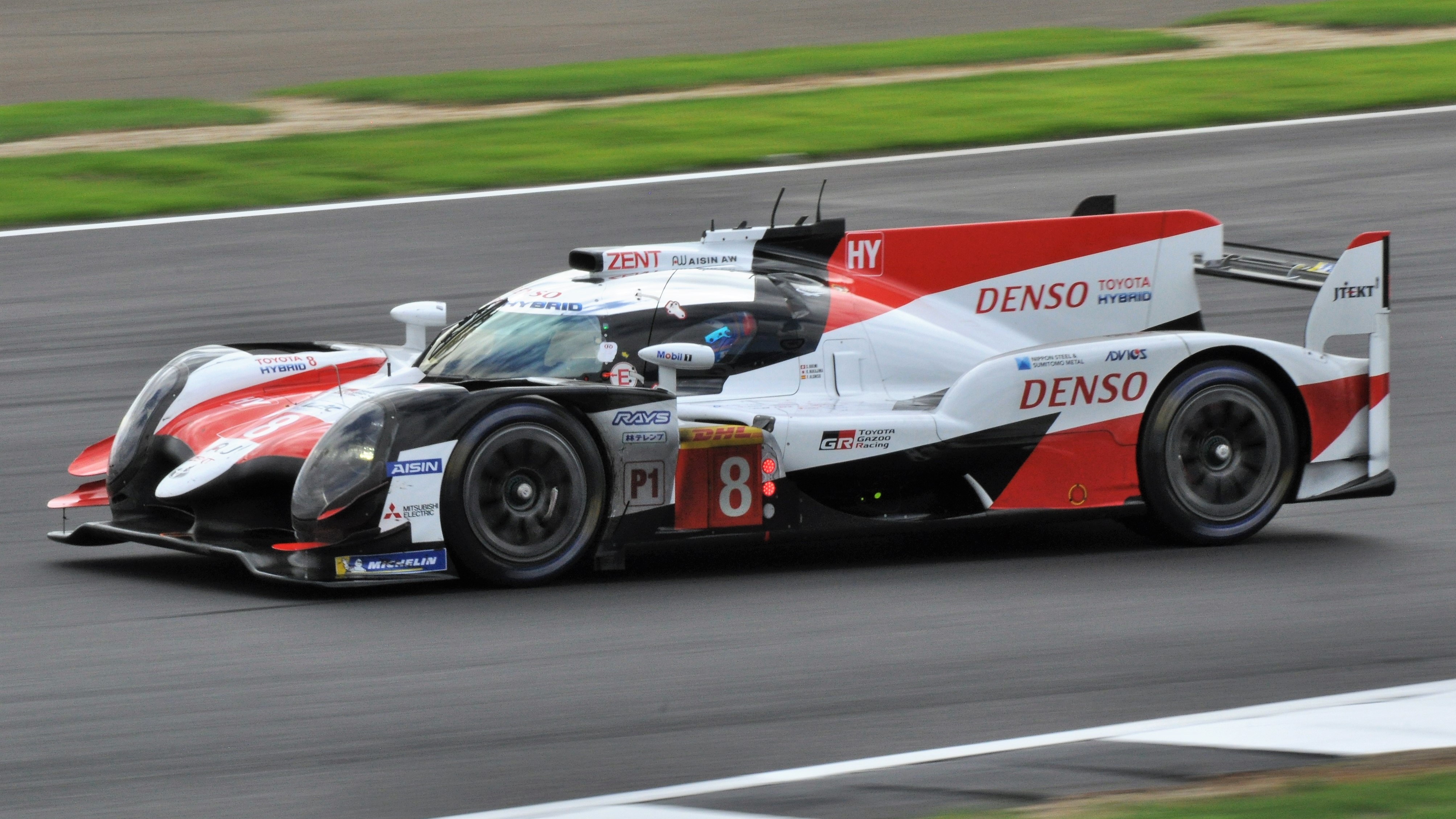 Spanish driver Fernando Alonso lines his Toyota TS050 car up for Village corner, during the 2018 6 Hours of Silverstone race. Alonso and his co-drivers, Sébastien Buemi and Kazuki Nakajima, finished the race in first place, but were subsequently disqualified as their car infringed technical regulations.